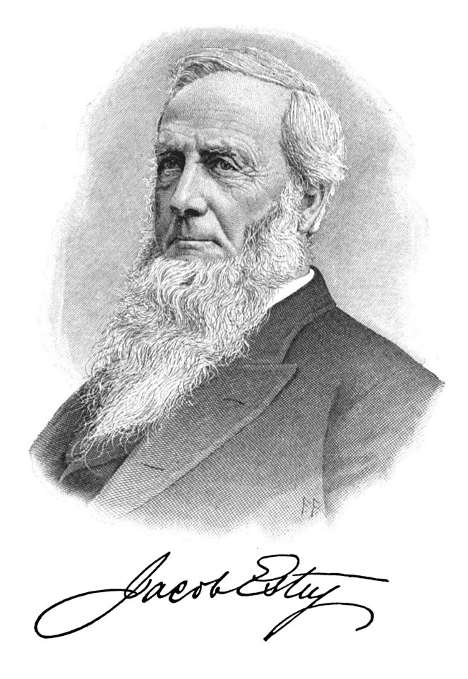 Engraving of Jacob Estey, Organ manufacturer, from Americas Successful Men of Affairs, published 1896, page 287